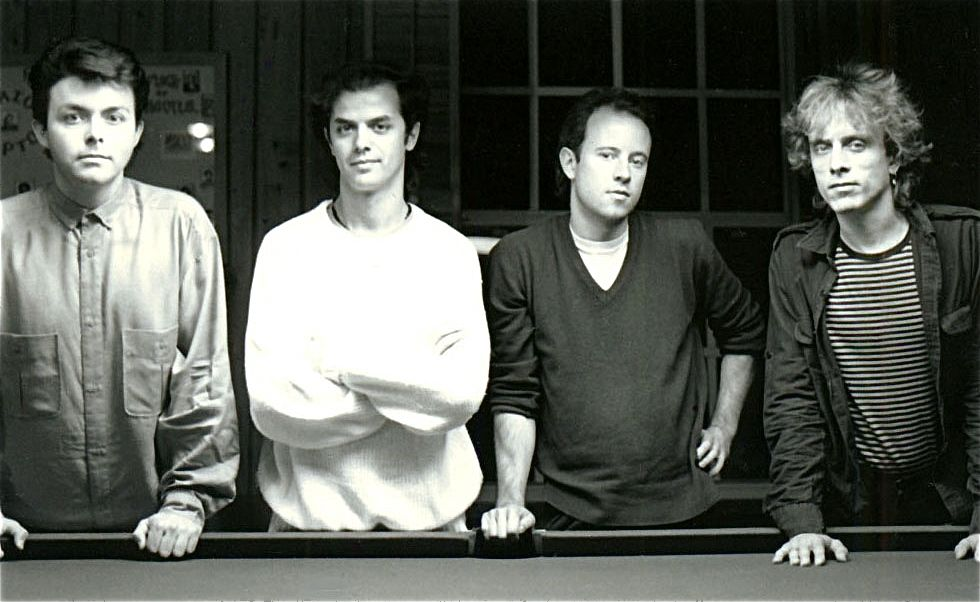 The Bongos circa 1985, photographed at Compass Point Studios, Bahamas by Emil Schult.